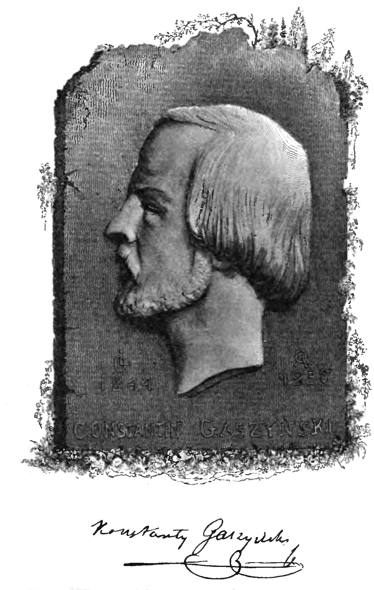 Konstanty gaszyński